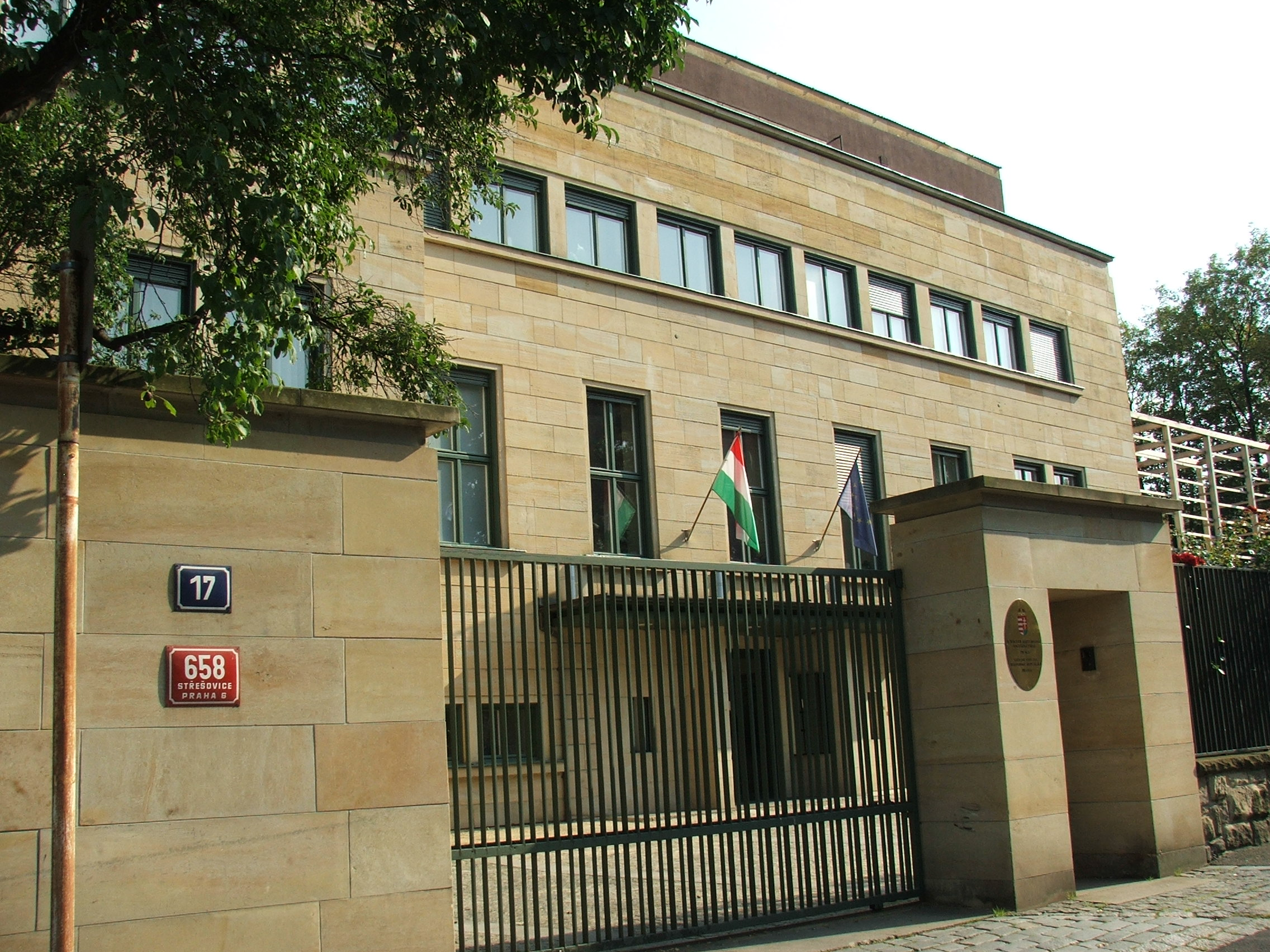 Embassy of Hungary in Prague - Střešovice, Czechia Embassy recently moved to this address, few years ago this building hosted Delegation of European Comission in Prague.